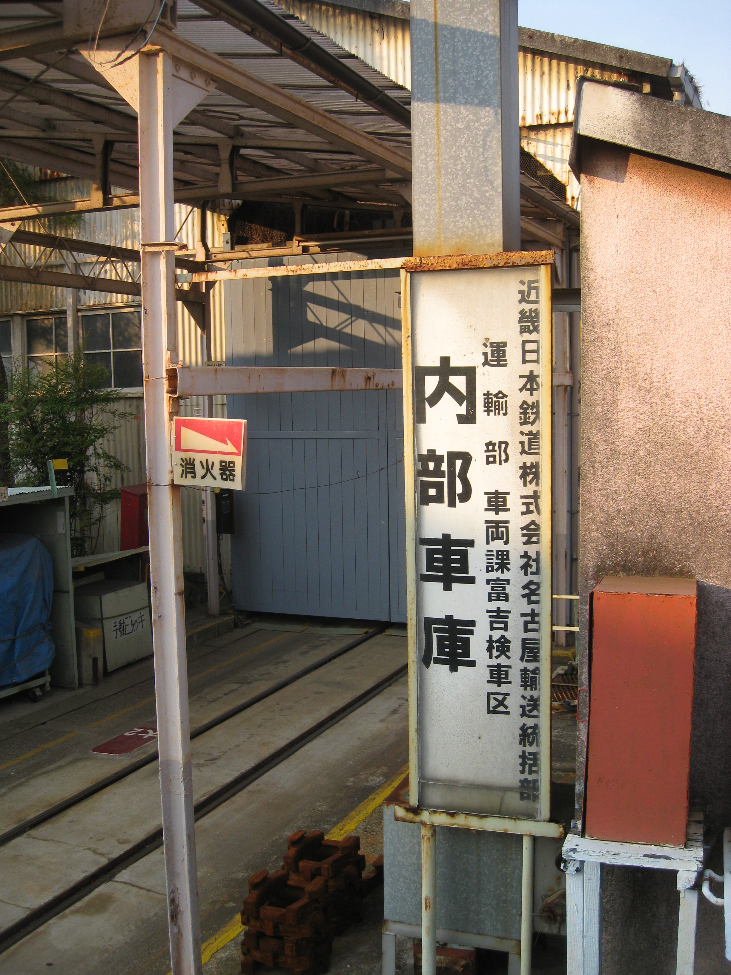 a barn of KinetetsuUtsube and Hachiouiji line.Located in Utsube Station